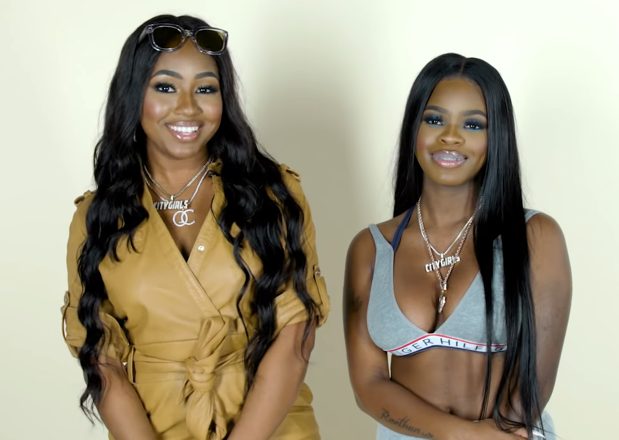 City Girls: Yung Miami (left) and JT (right) in July 2018